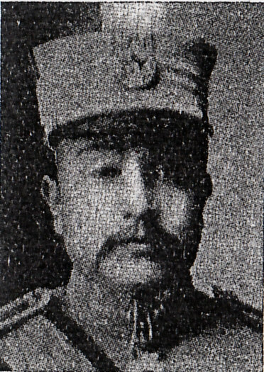 Duan Zhigui (Tuan Chih-kui) (1869 - 1925)